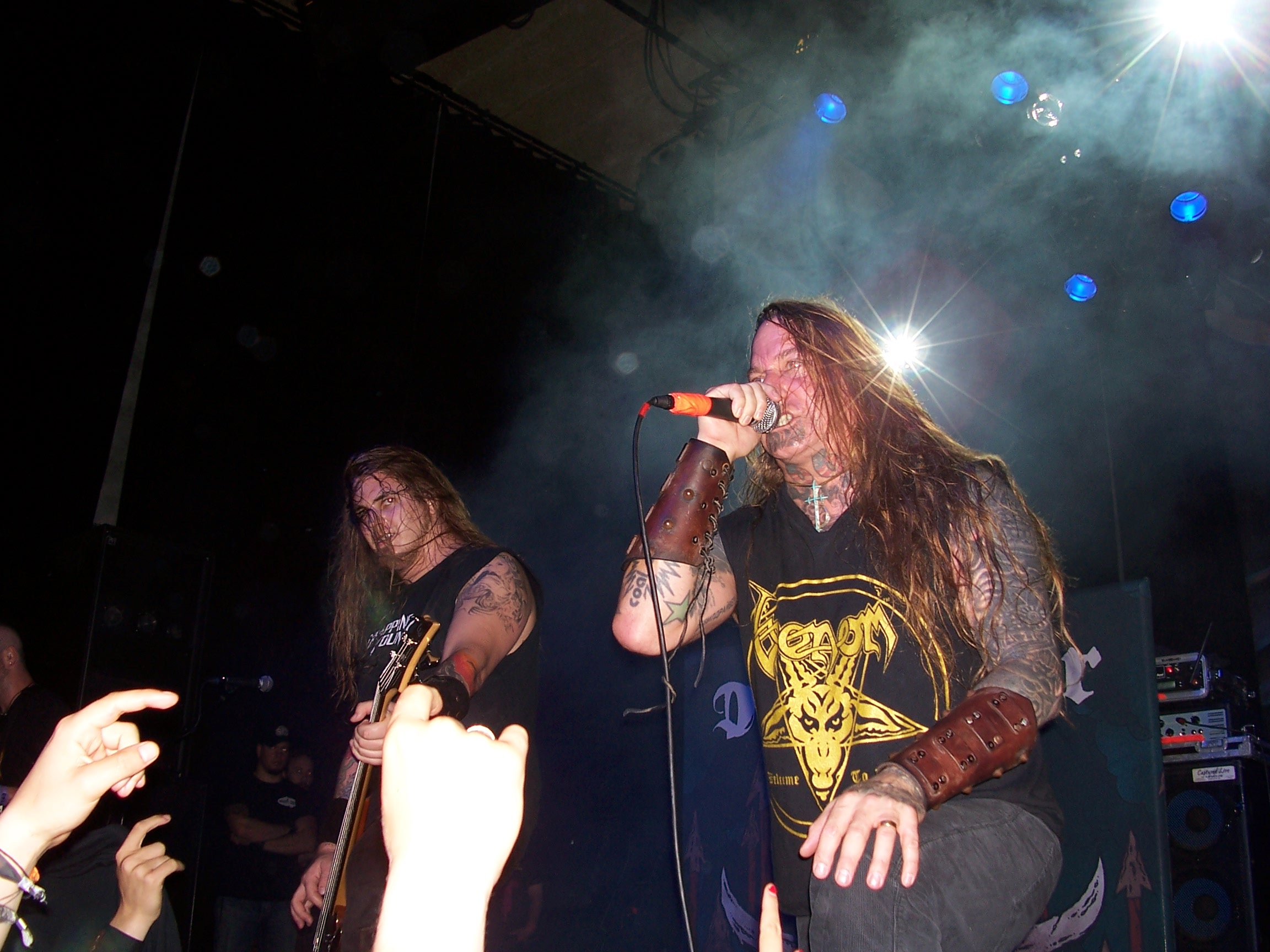 The American death metalband "DevilDriver" performing in Paard van Troje, The Hague, The Netherlands on 2009-06-30.